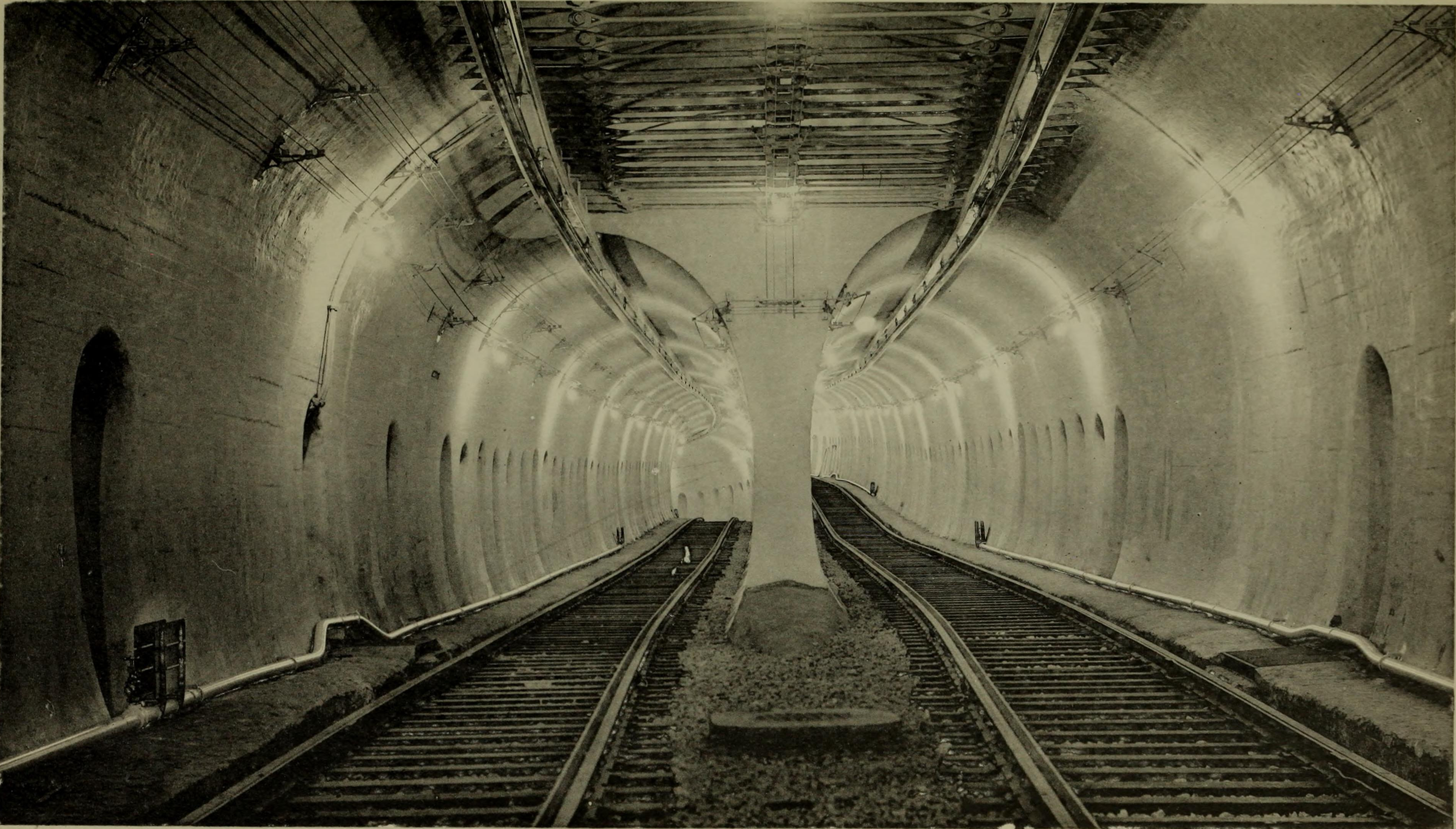 Section of the Tremont Street Subway (since abandoned) between Boylston and Pleasant Street. This view is under Tremont Street at Van Rensslaer Place (now Allen's Alley), facing north towards Boylston. Inbound track is on the right.Original caption: BELLMOUTH NEAR VAN RENSSLAER PLACE, TREMONT STREET (FACING NORTH).